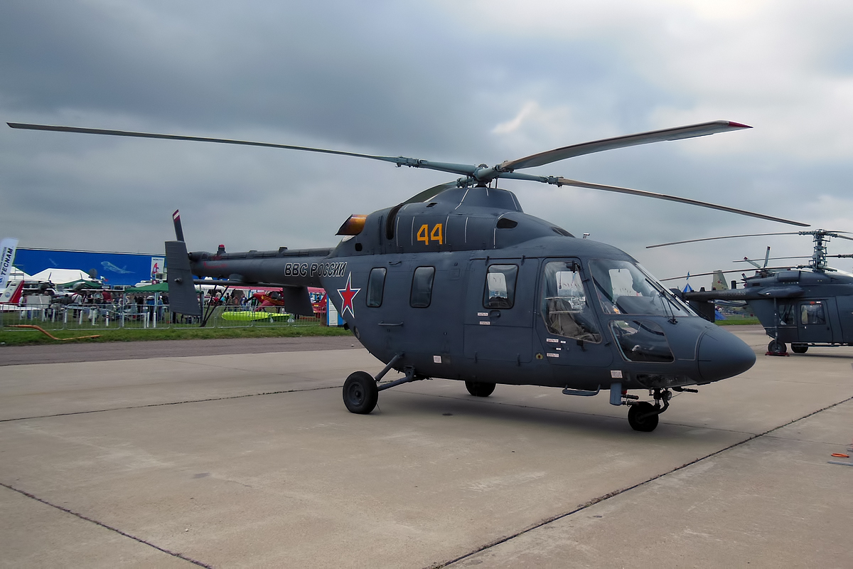 Russian Air Force, 44, Ansat-U